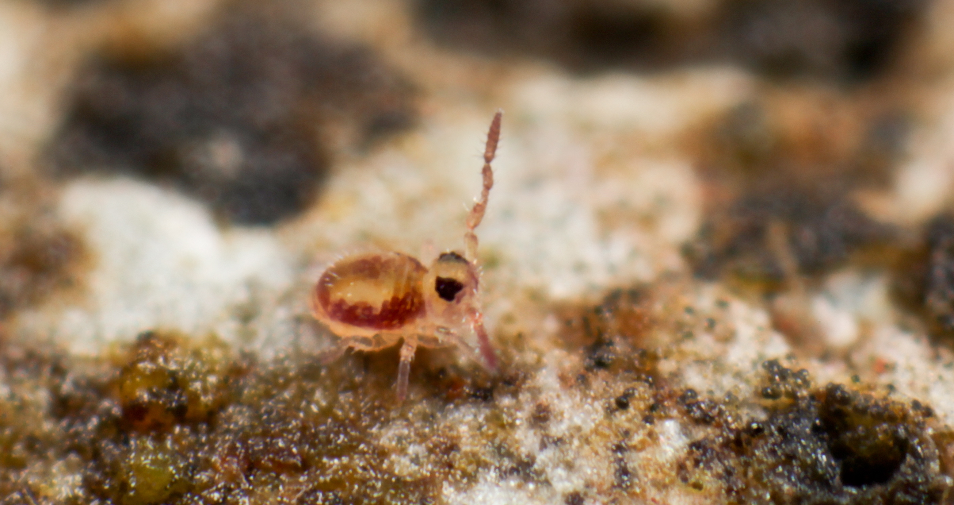 Male Sminthurides malmgreni from England.